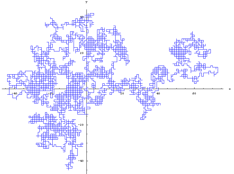 Example of isotropic random walk on the euclidean lattice Z 2 {\displaystyle \mathbb {Z} ^{2 after 10 000 unit steps, starting from the origin.